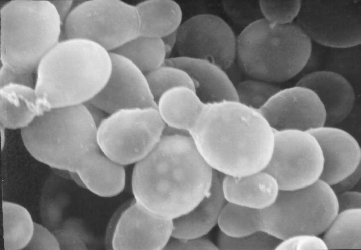 ID#: 213 Description: Scanning Electron Micrograph of Malassezia furfur Content Providers(s): Robert Simmons/Janice Carr Photo Credit: CDC/Janice Carr Copyright Restrictions: None - This image is in the public domain and thus free of any copyright restrictions. As a matter of courtesy we request that the content provider be credited and notified in any public or private usage of this image.